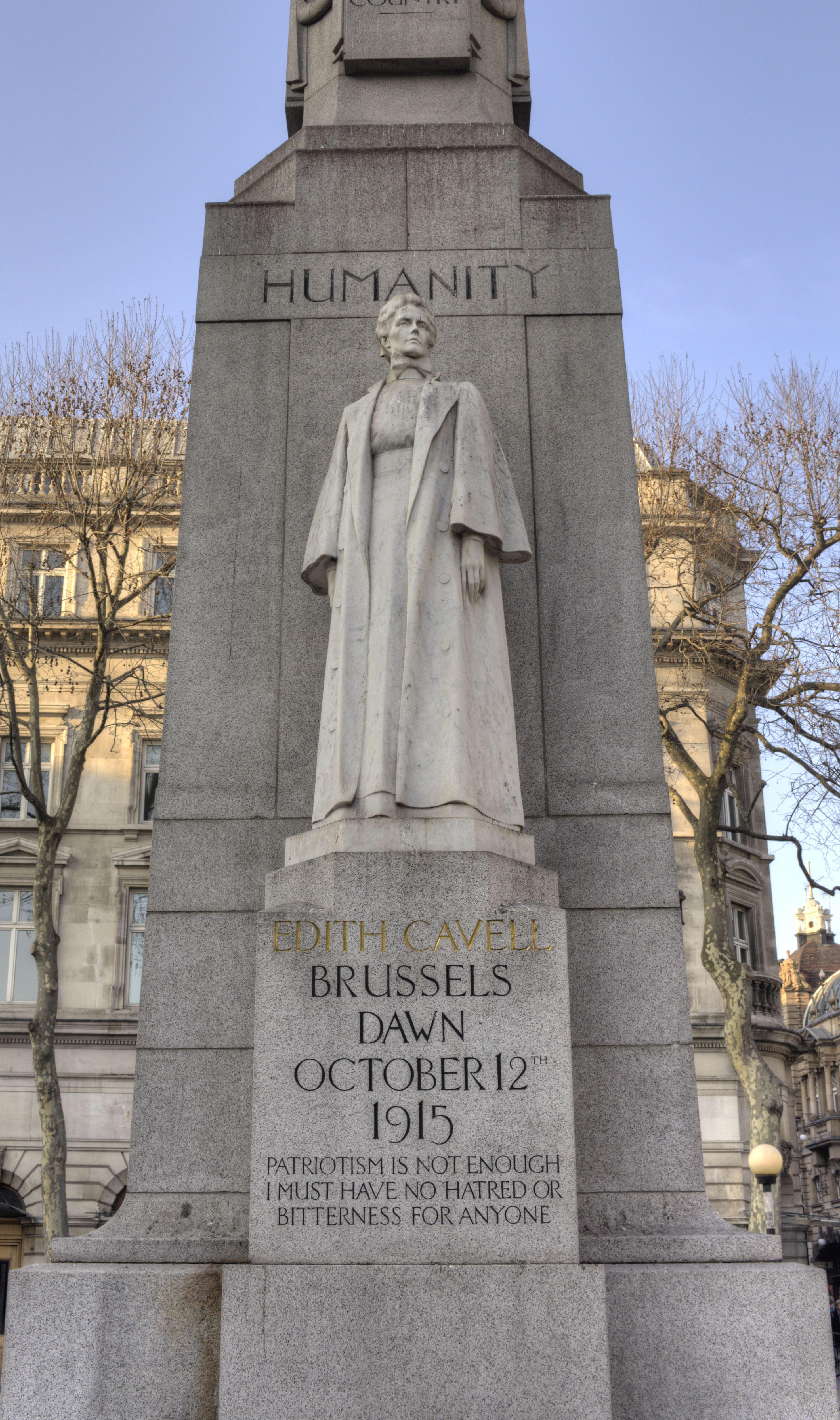 Statue of Edith Cavel on the Edith Cavel Memorial, Westminster